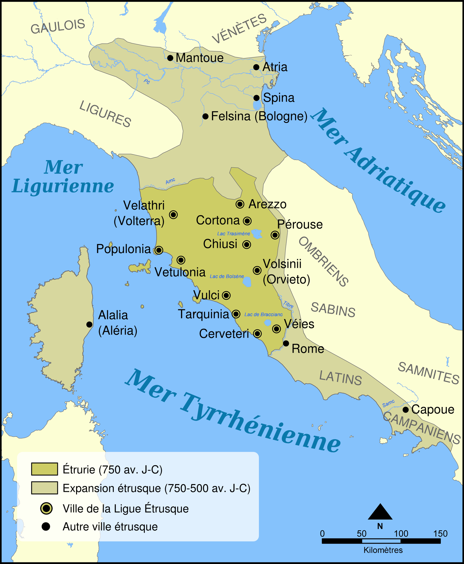 French version of a map showing the extent of Etruria and the Etruscan civilization. The map includes the 12 cities of the Etruscan League and notable cities founded by the Etruscans.